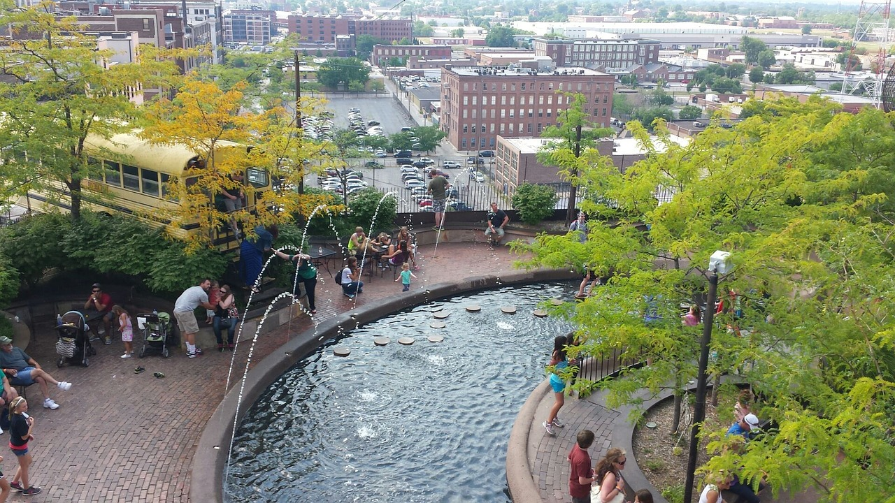 City Museum (roof view?)